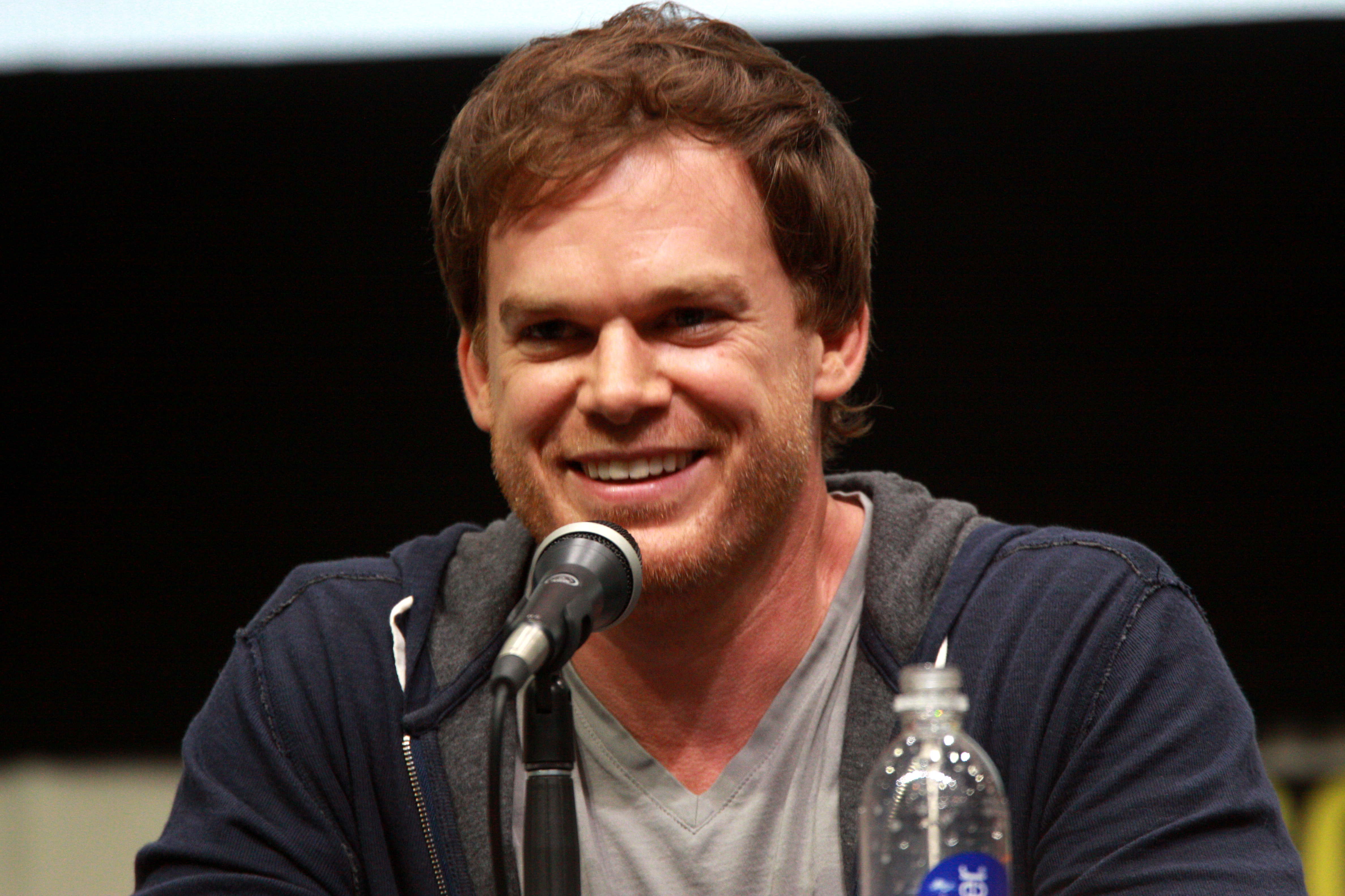 Michael C. Hall speaking at the 2013 San Diego Comic Con International, for "Dexter", at the San Diego Convention Center in San Diego, California.